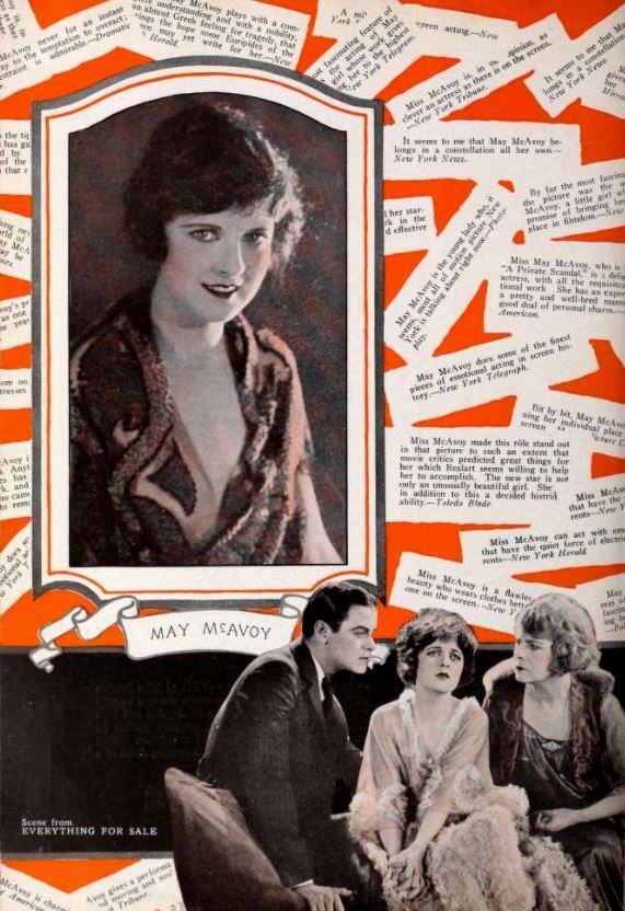 Advertisement for the American drama film Everything for Sale (1921) with an unidentified actor, May McAvoy, and Kathlyn Williams, from the insert after page 18 of the August 27, 1921 Exhibitors Herald.